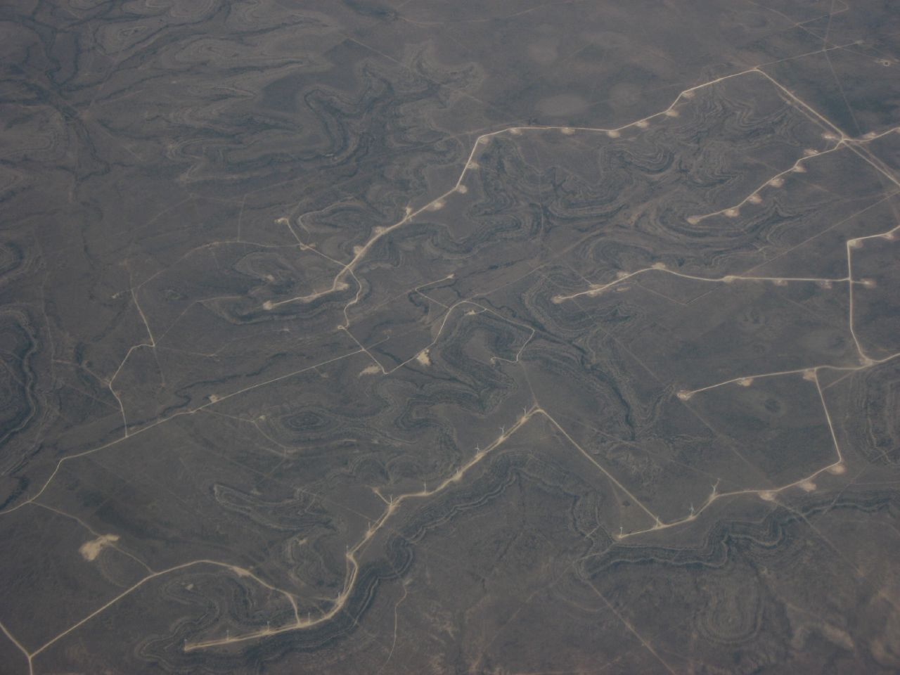 Aerial photo of a wind farm in Stirling County, Texas.